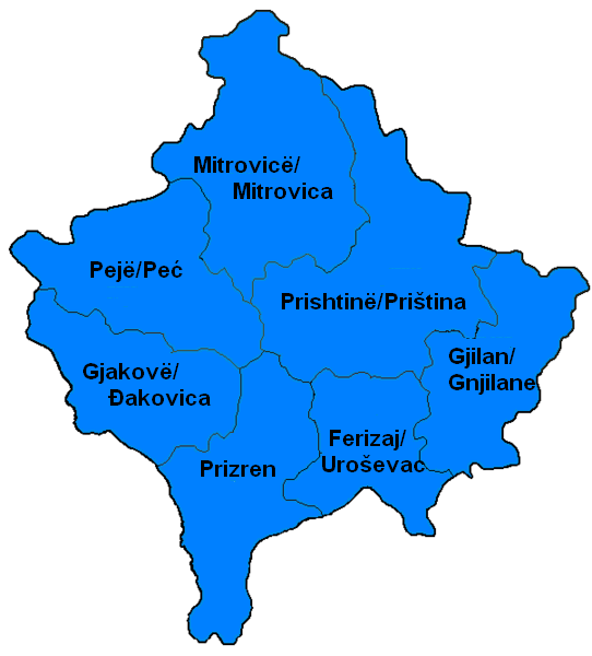 Kosovo Statistical Regions